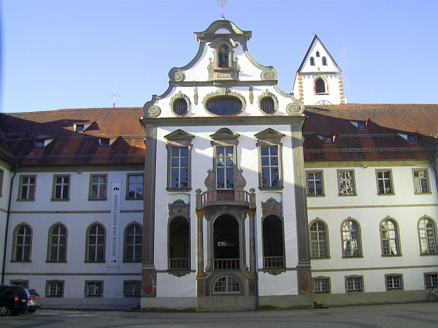 Kloster Sankt Mang Füssen Photo taken by Myke Rosenthal-English This photo is released into the public domain